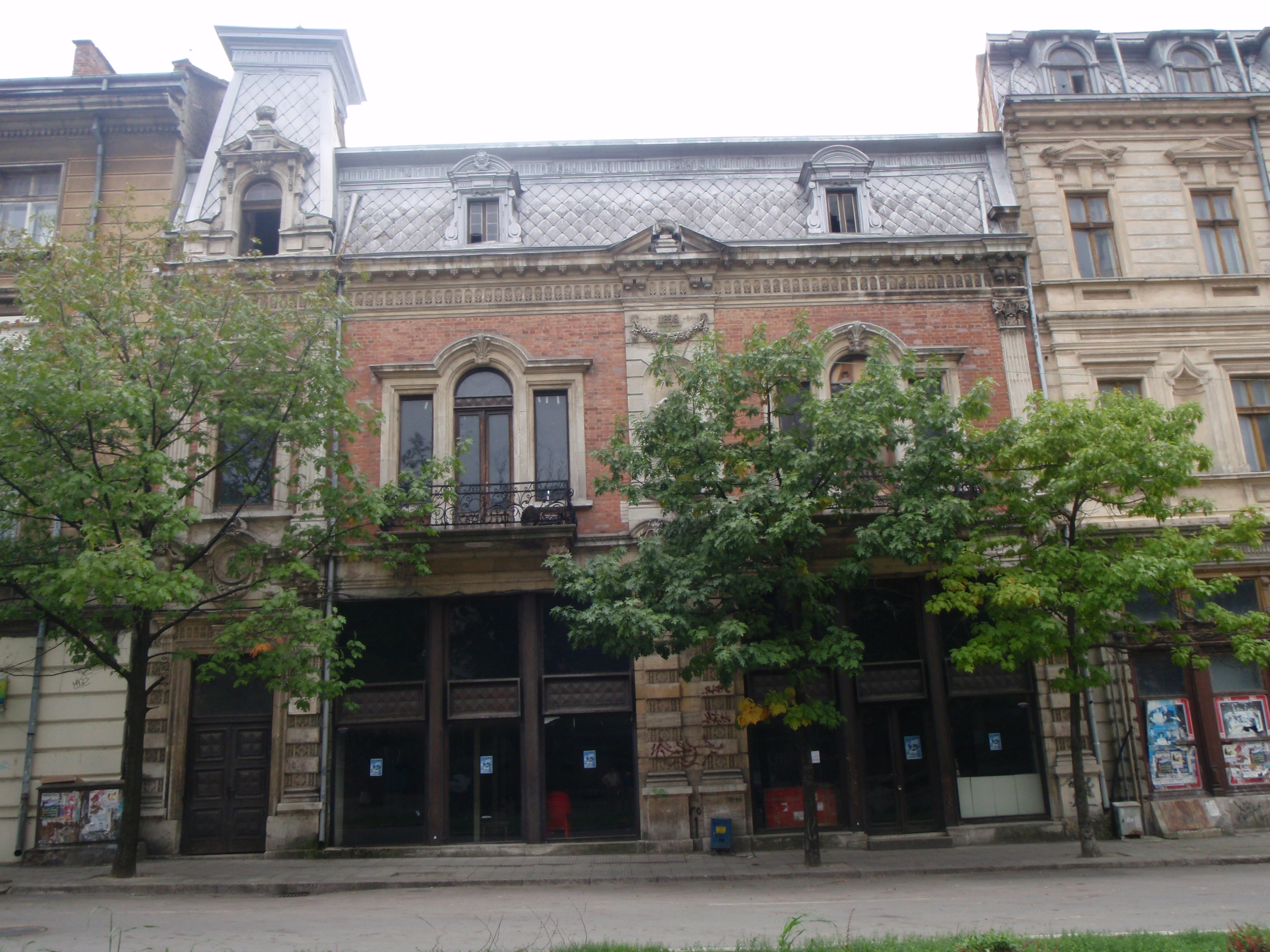 Birthplace of Elias Canetti. Slavyanska Street 12, Rousse, Bulgaria